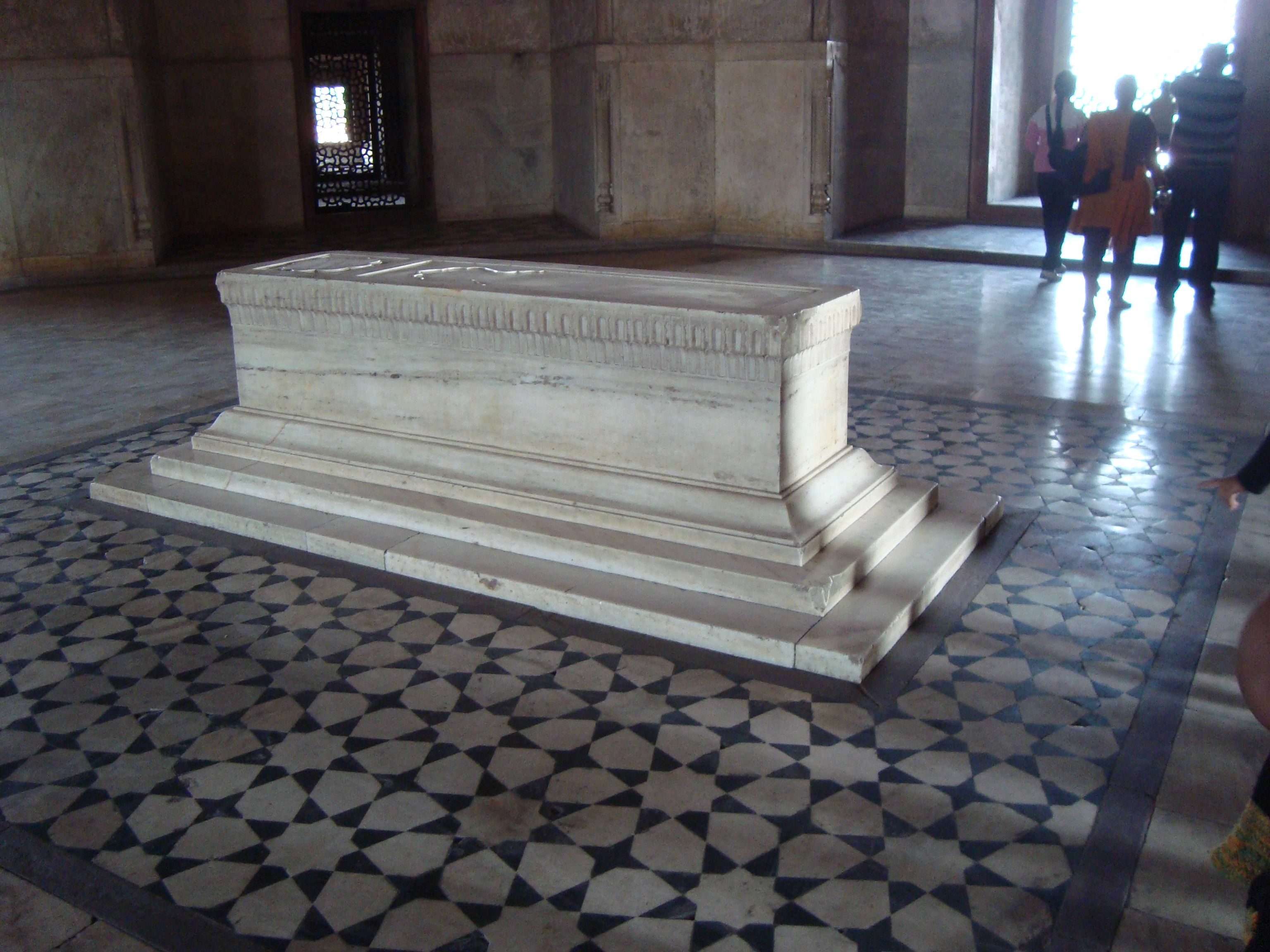 Main grave (Humayu's grave) of Humayun's Tomb, New Delhi, India.